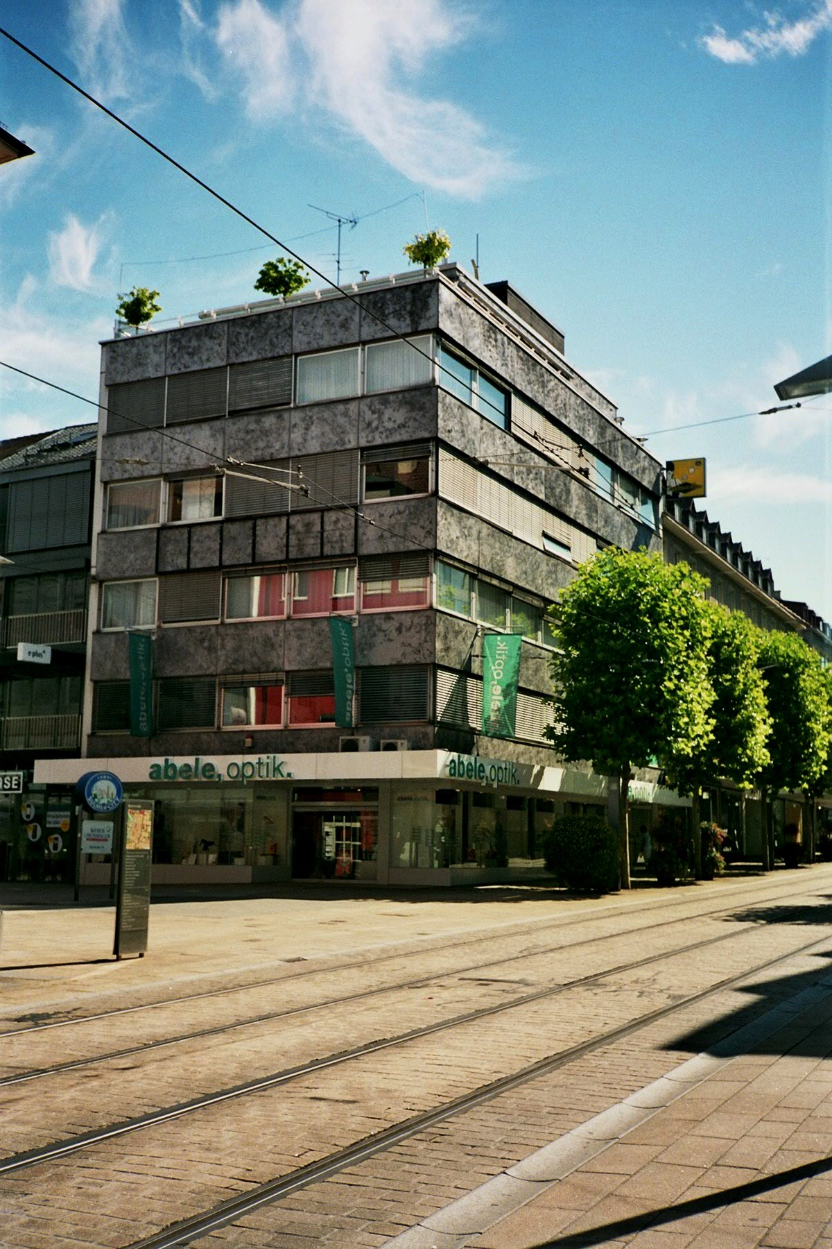 Heilbronn_Model-Haus_an_der_Ecke_Sülmer-_Kaiserstraße.JPG